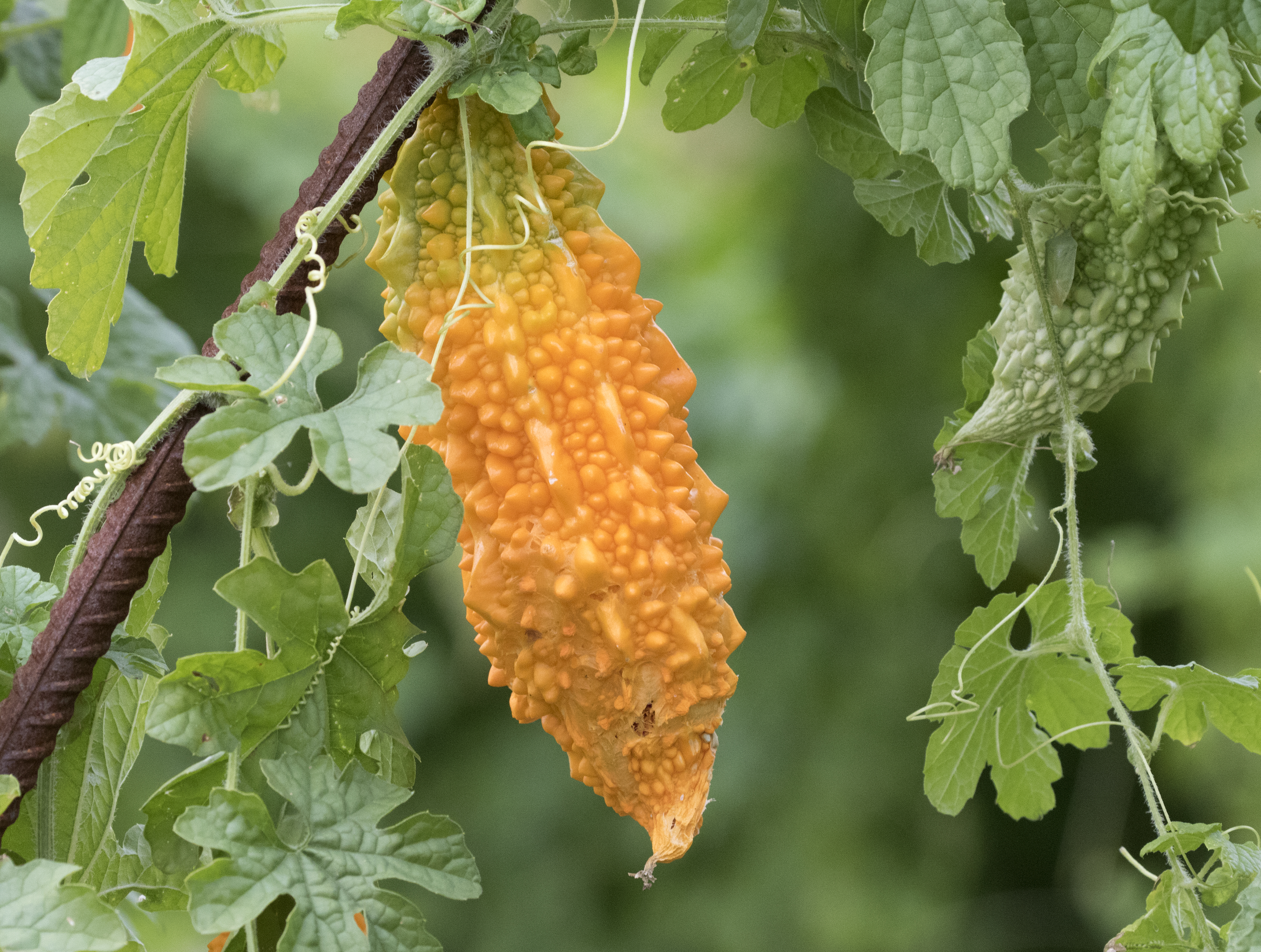 Bitter melons in Ali Nihat Gökyiğit Botanical Garden of Çukurova University, Balcalı, Sarıçam - Adana, Turkey.